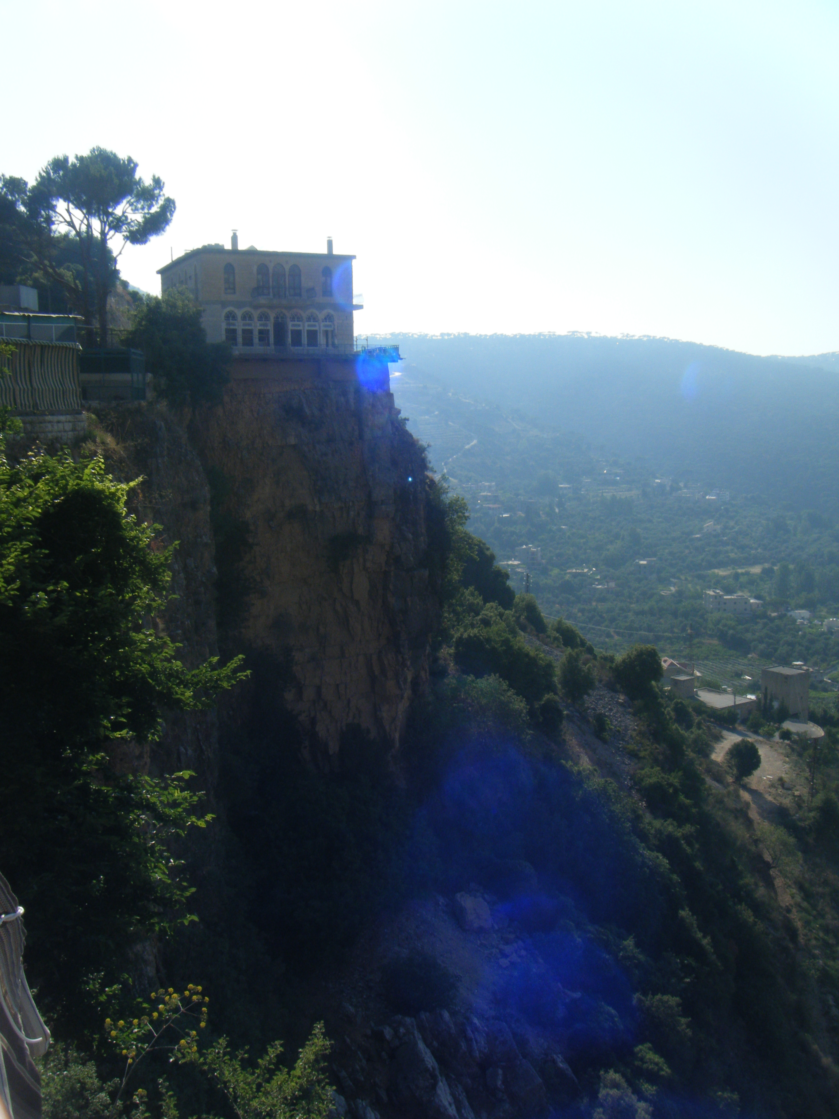 Jezzine, Lebanon.